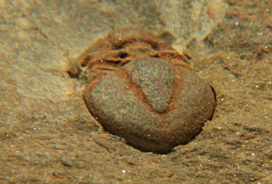 A specimen of Marocconus notabilis (Geyer, 1988), synonym Cephalopyge notabilis, Order Agnostida, Family Weymouthiidae, 8mm along the axis, frontal view, collected near Tassmant, Morocco, from the latest Lower Cambrian (Toyonian)